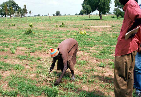 reforestation project in Senegal